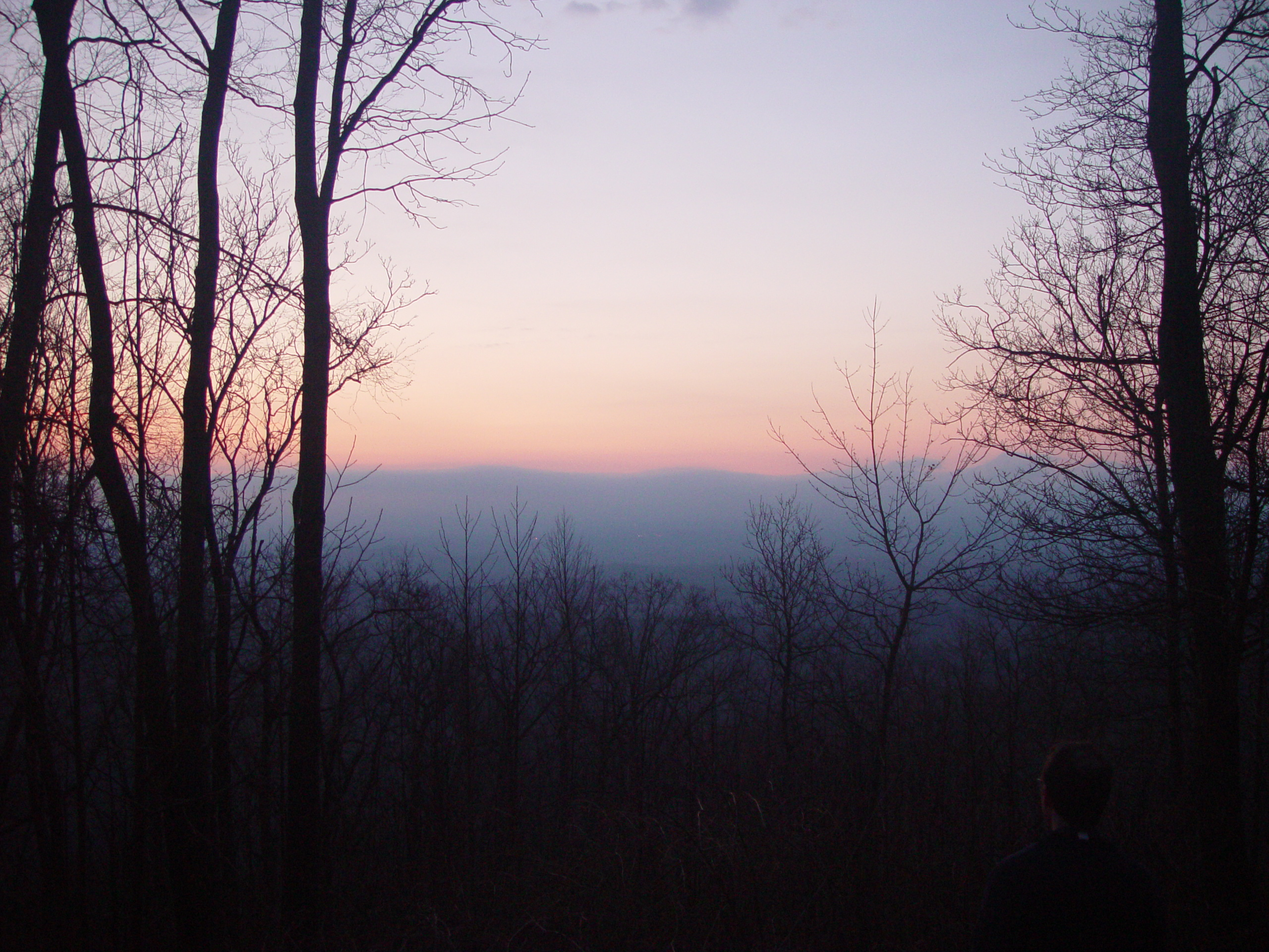 Sunrise view from the Hike Inn Star Base formation on the Vernal Equinox, March 20, 2004